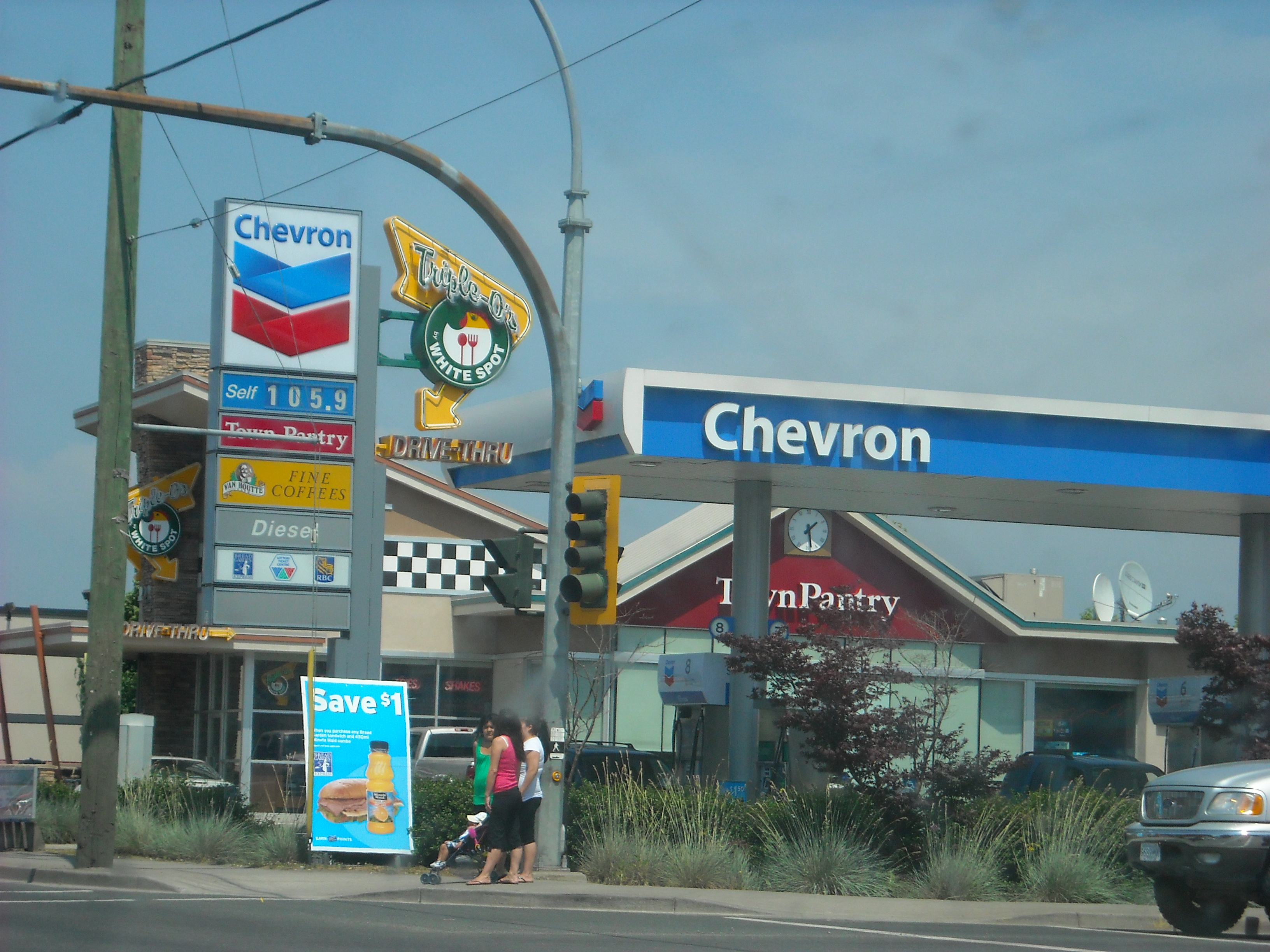 A Chevron Station with a White Spot inside of it on Vedder Road in Chilliwack.